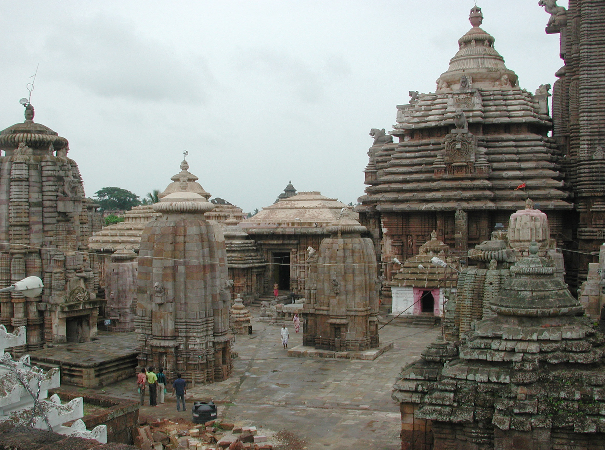 View into Hindu Shiva Temple area of Lingaraj in Bhubaneswar, Orissa, India